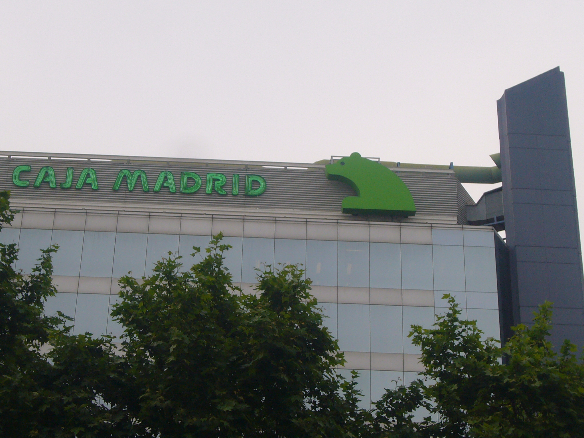 Caja Madrid building, Avinguda Diagonal, Barcelona